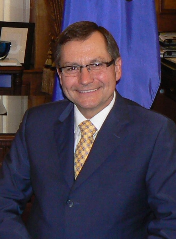 Hon. Ed Stelmach